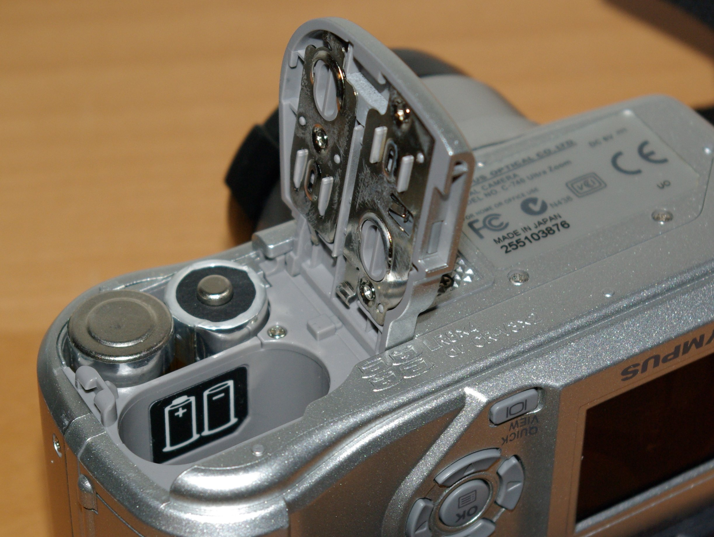 battery compartment of an Olympus C740-UZ digital camera, illustrating compatibility with both AA and CR-V3 batteries